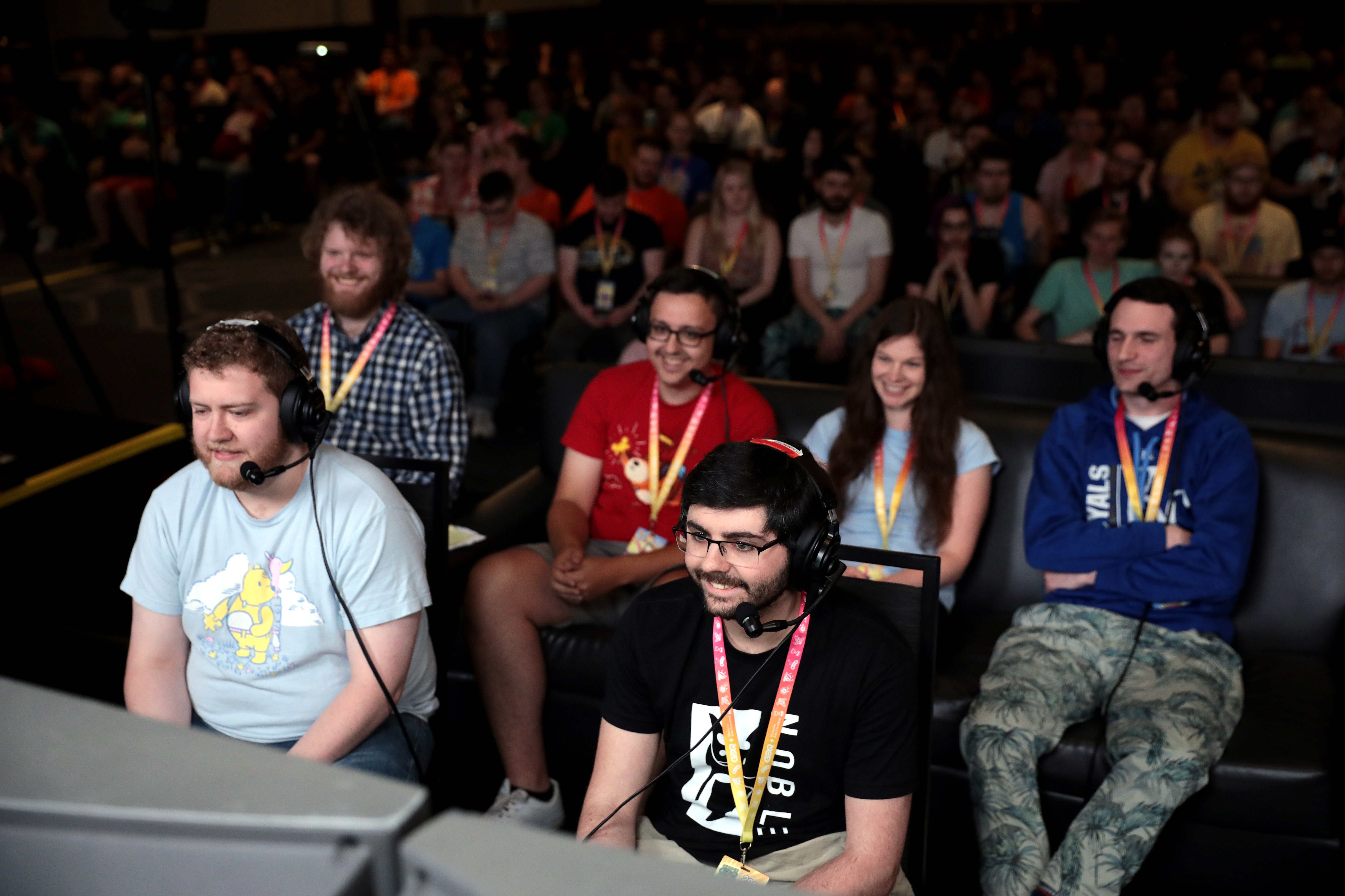 Duck, Danzel Glovington, Mooseman, Hagginater, Nylume and Kingkc at the 2019 Summer Games Done Quick (SGDQ) at the DoubleTree Hilton Bloomington-Minneapolis Hotel in Minneapolis, Minnesota.